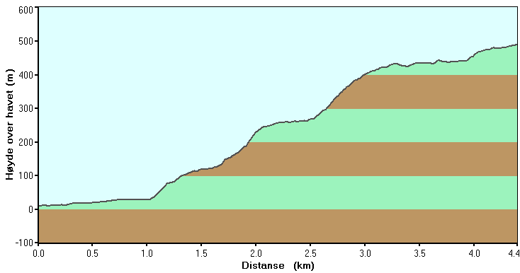 Height profile climbing Kjørsvikfjellet mountain in Sømna, Norway.